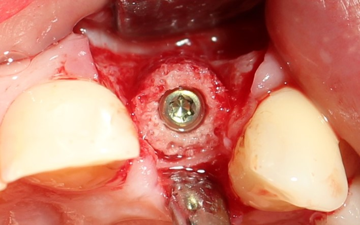 Reconstruction and simultaneous implantation using bonering technique